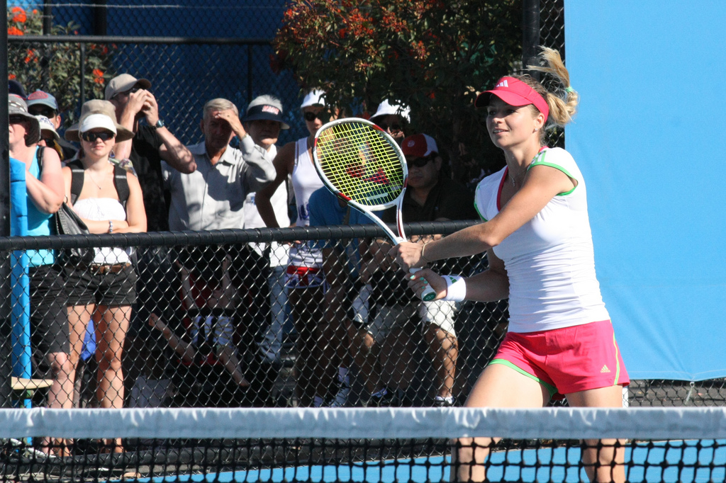 Maria Kirilenko at the 2011 Australian Open